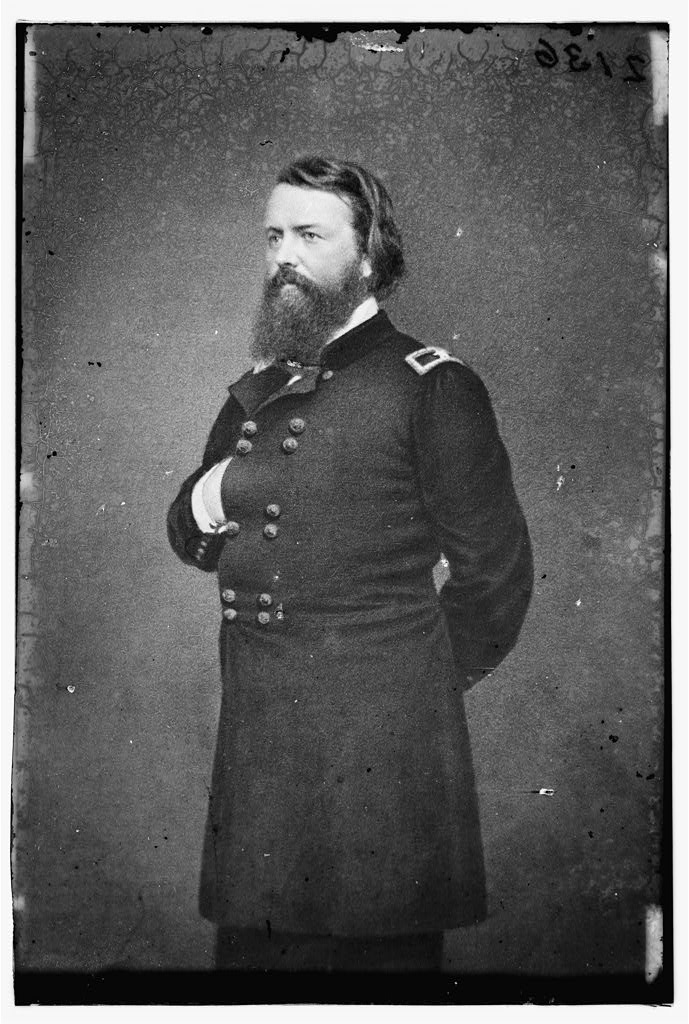 Portrait of Brigadier General John Pope, United States Army (Major General after Mar. 21, 1862)